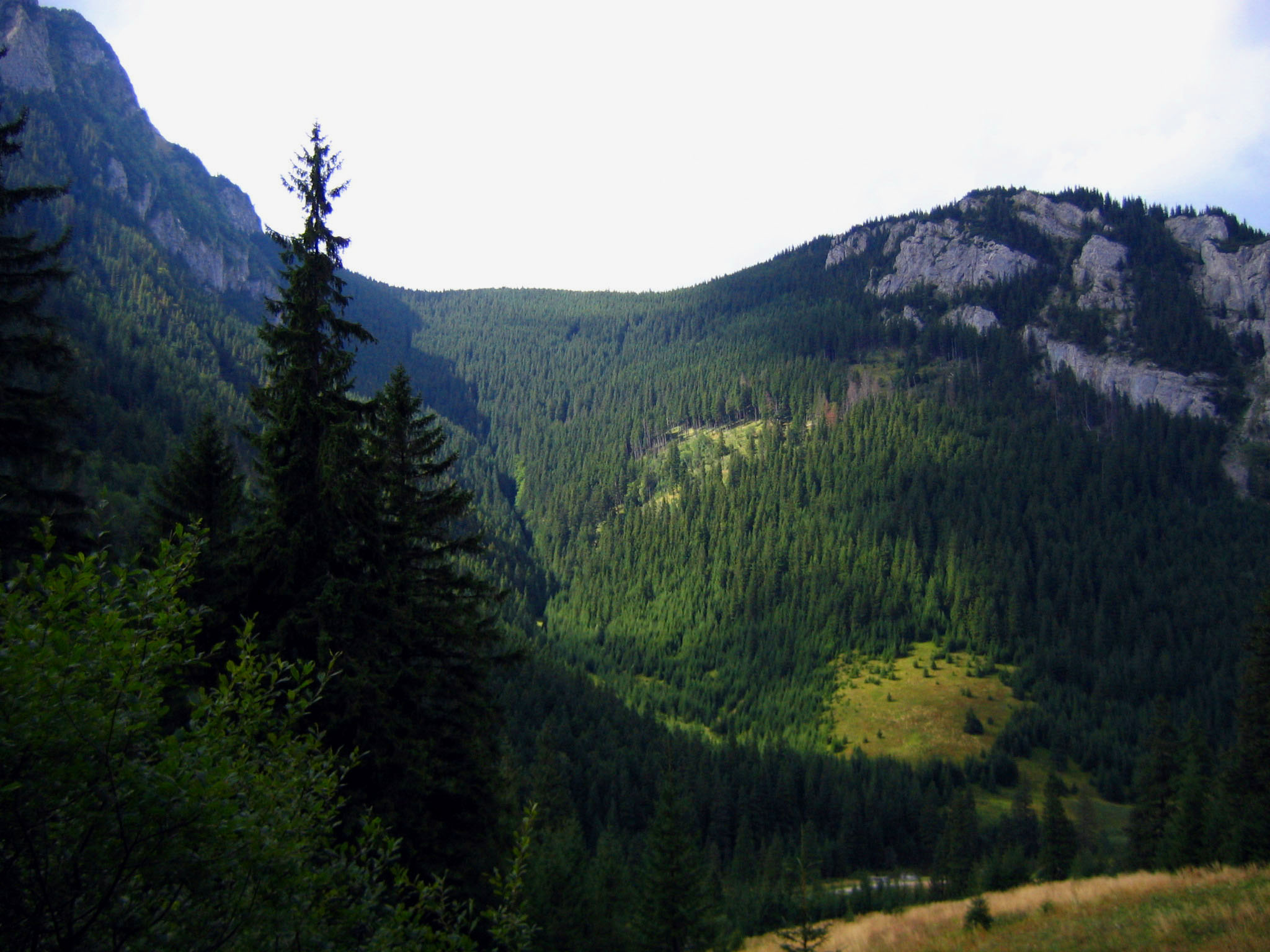 Żeleźniak Couloir